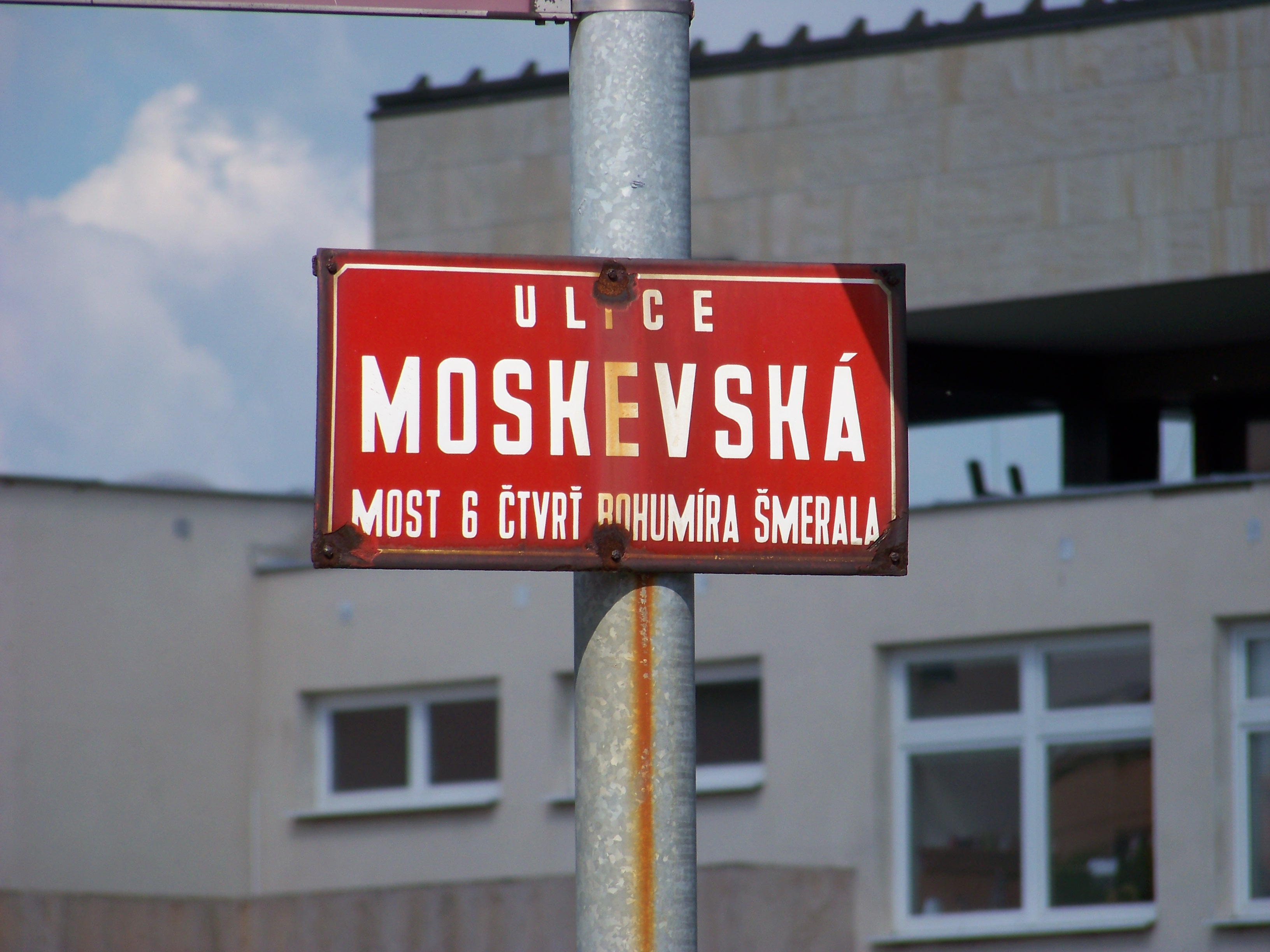 Most, Most District, Ústí nad Labem Region, Czech Republic. Moskevská street, a street sign.